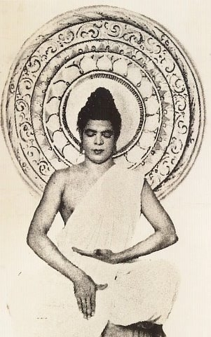 Reduce the size of the photo